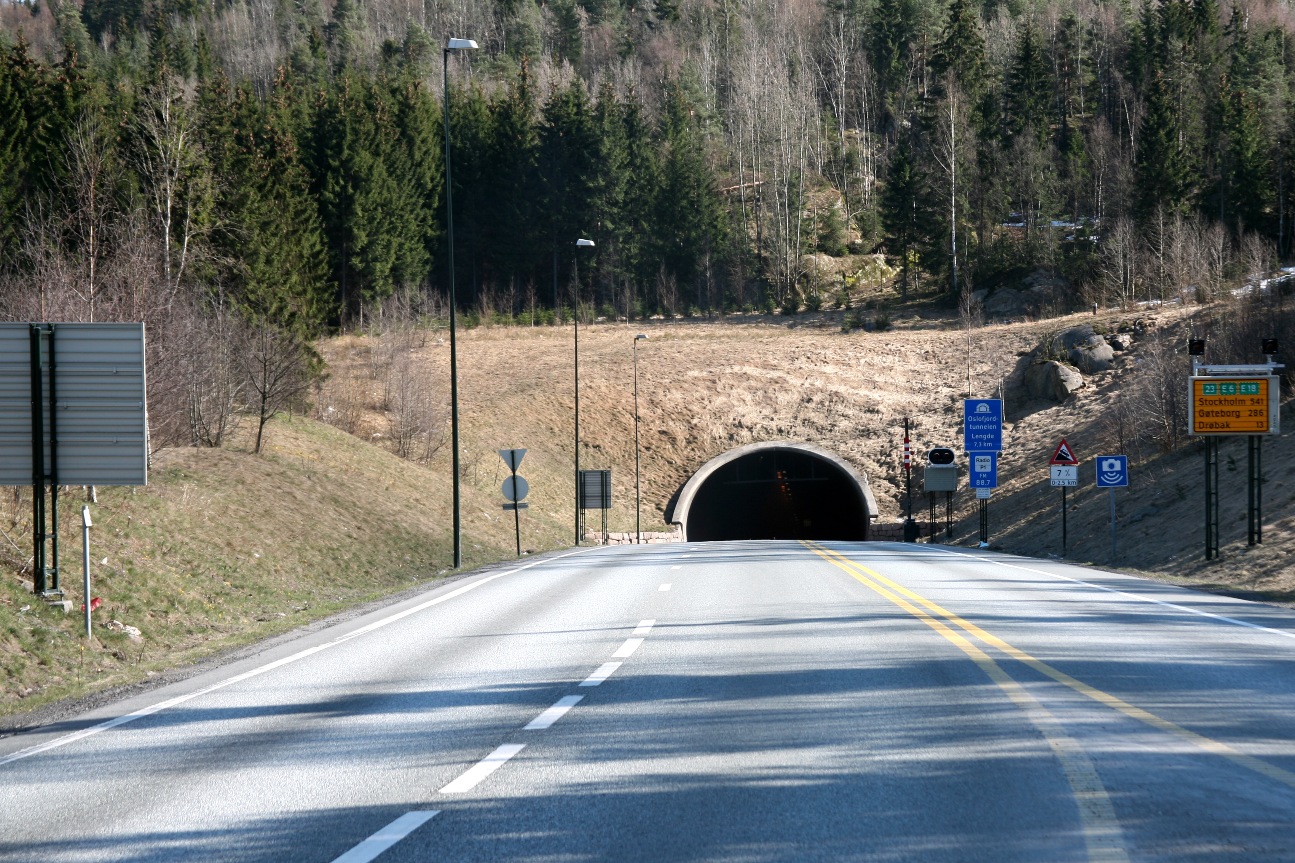 Picture of Oslofjord Tunnel, Hurum (west) entrance